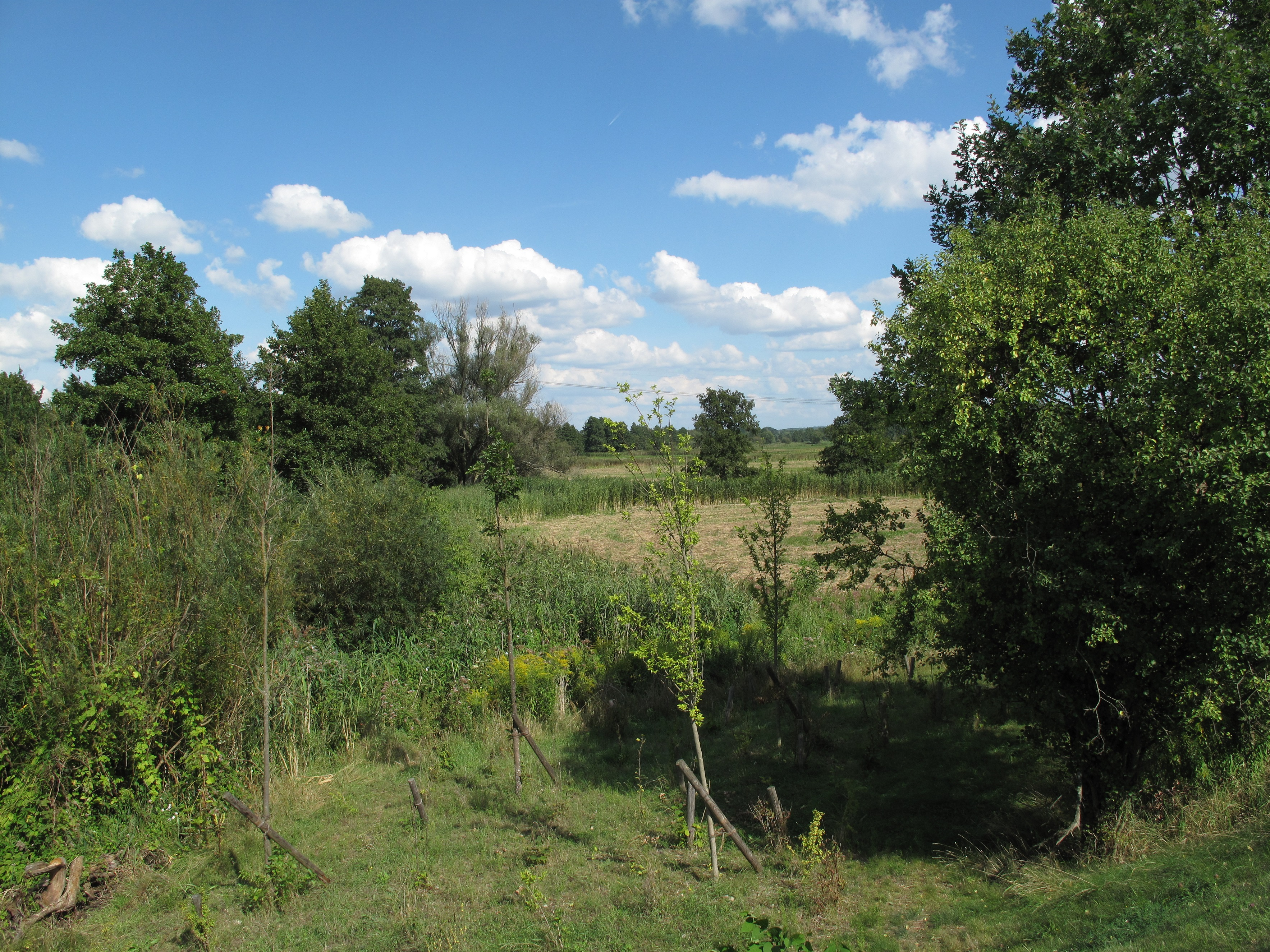 View from the Bridge of the railway line Königs Wusterhausen–Grunow over the Storkower Kanal (water canal) to east over the Naturschutzgebiet Luchwiesen. The „Naturschutzgebiet Luchwiesen“ is a Naturschutzgebiet (protected area) and Natura 2000-area in the district Oder-Spree in Brandenburg, Germany. It is situtaed in the territory of the town Storkow and in the territory of Storkow’s Ortsteil (quarter)) Philadelphia (village). The area covers 109,57 hectare, is flown by the Storkower Kanal (water canal) and is placed in the Dahme-Heideseen Nature Park. It is characterised among others by inland salt marsh-meadows and makes up according to the German Federal Agency for Nature Conservation (Bundesamt für Naturschutz – BfN) the largest and most important inland salt marsh in Brandenburg.